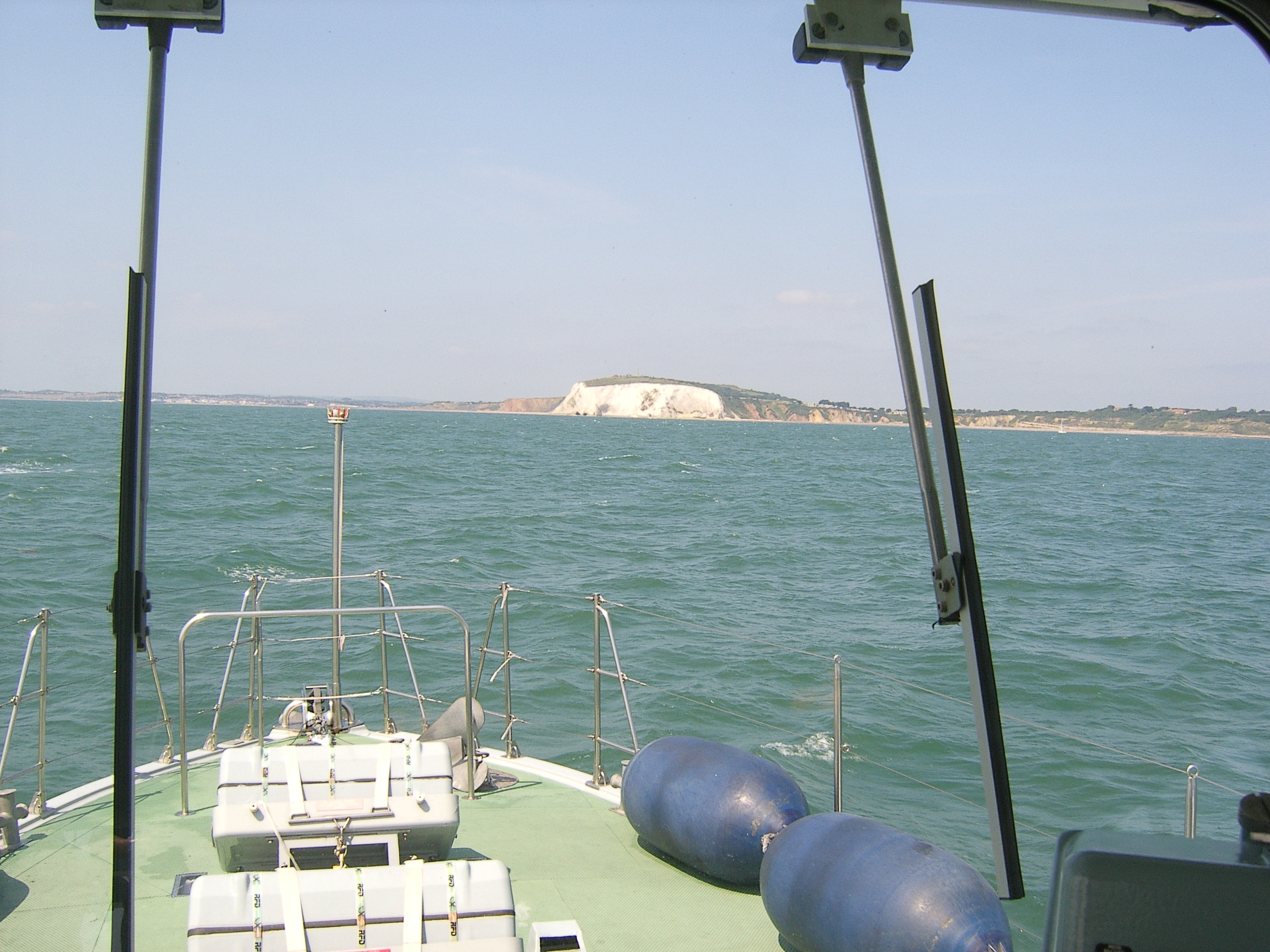 The Solent, taken from the wheelhouse of HMS Example (P165) just before the 2005 International Fleet Review. Gilkicker Point can be seen in the centre of the image.